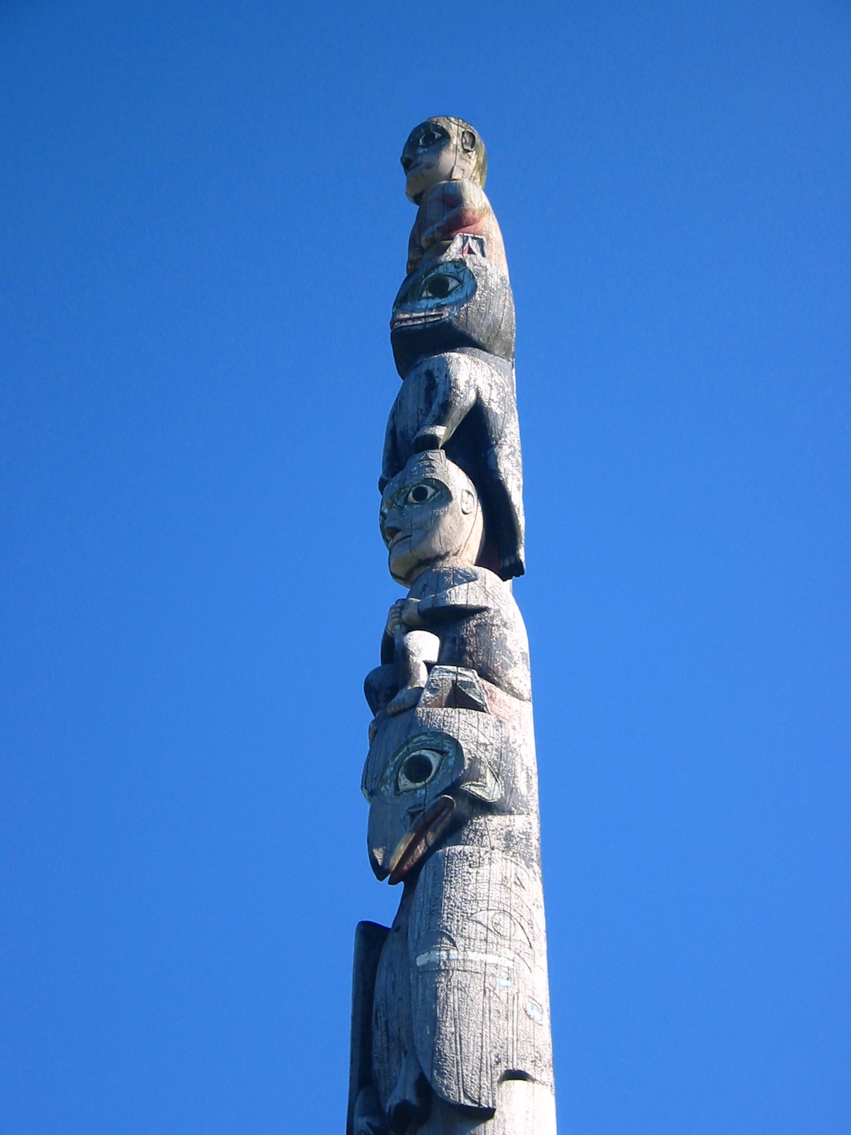 Totem in Sitka, Alaska